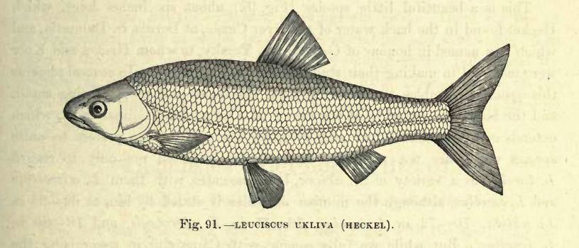 Illustration in the book Fresh-Waters Fishes of Europe. A History of their Genera, Species, Structure, Habits and Distribution by Harry Govier Seeley (1839-1909)